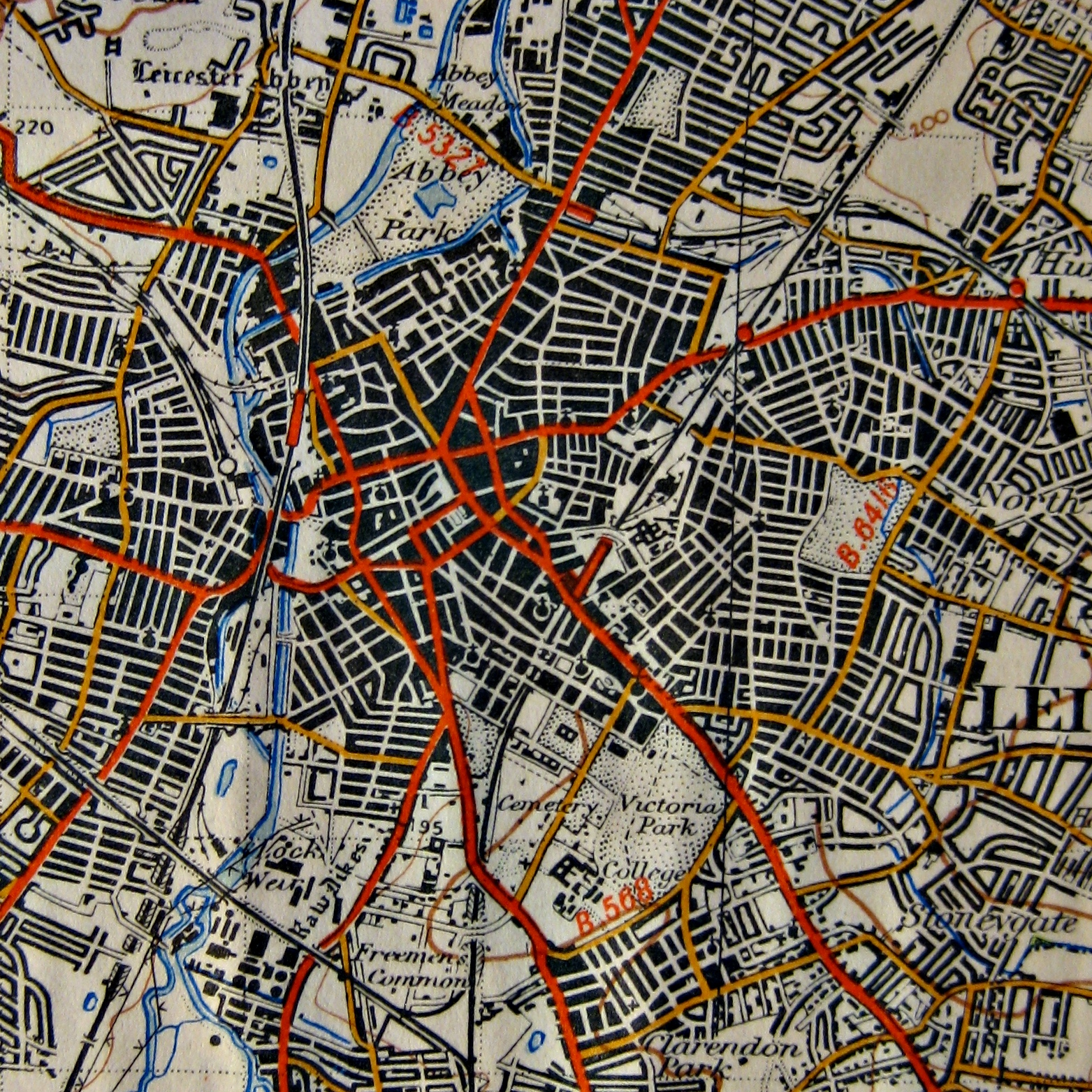 Old Ordnance Survey map of Leicester from 1947